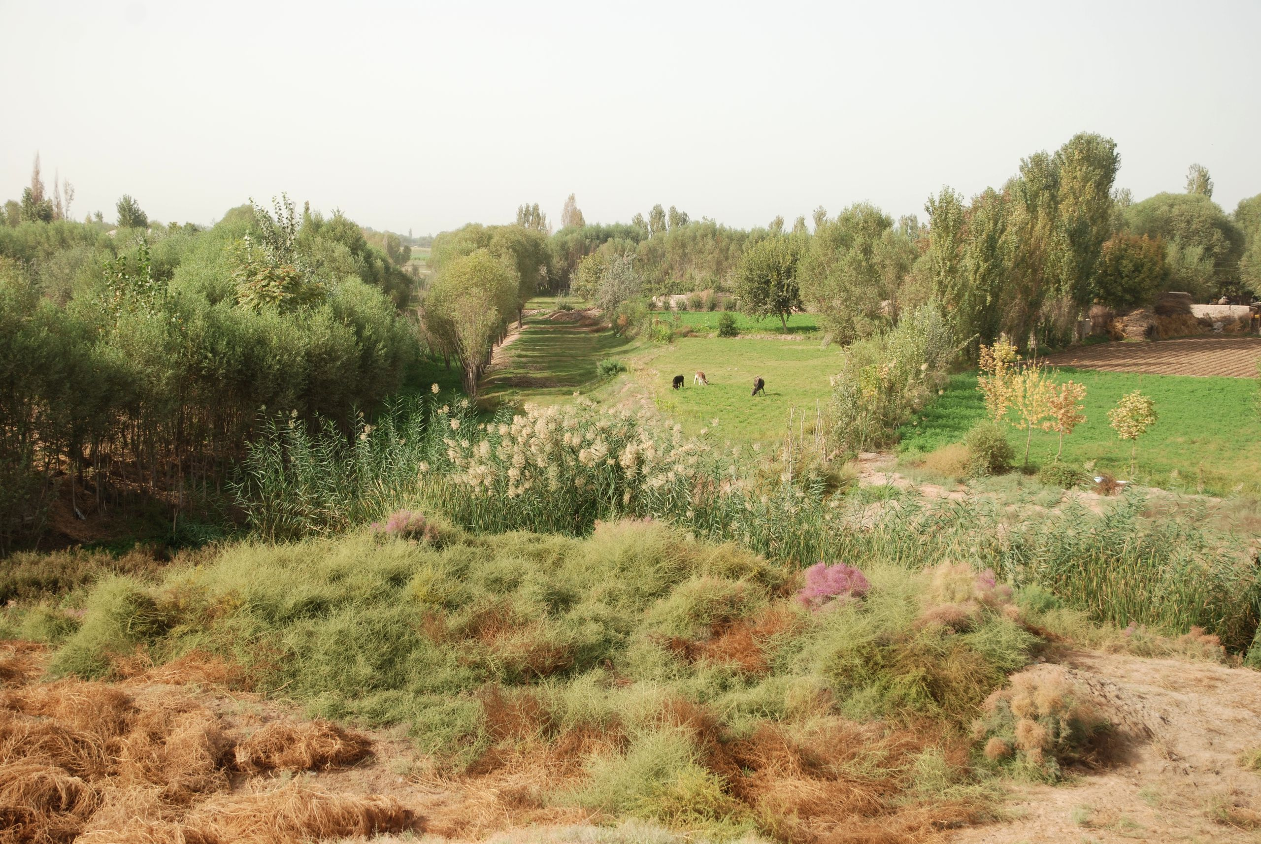 Kolkhozobod, west of town